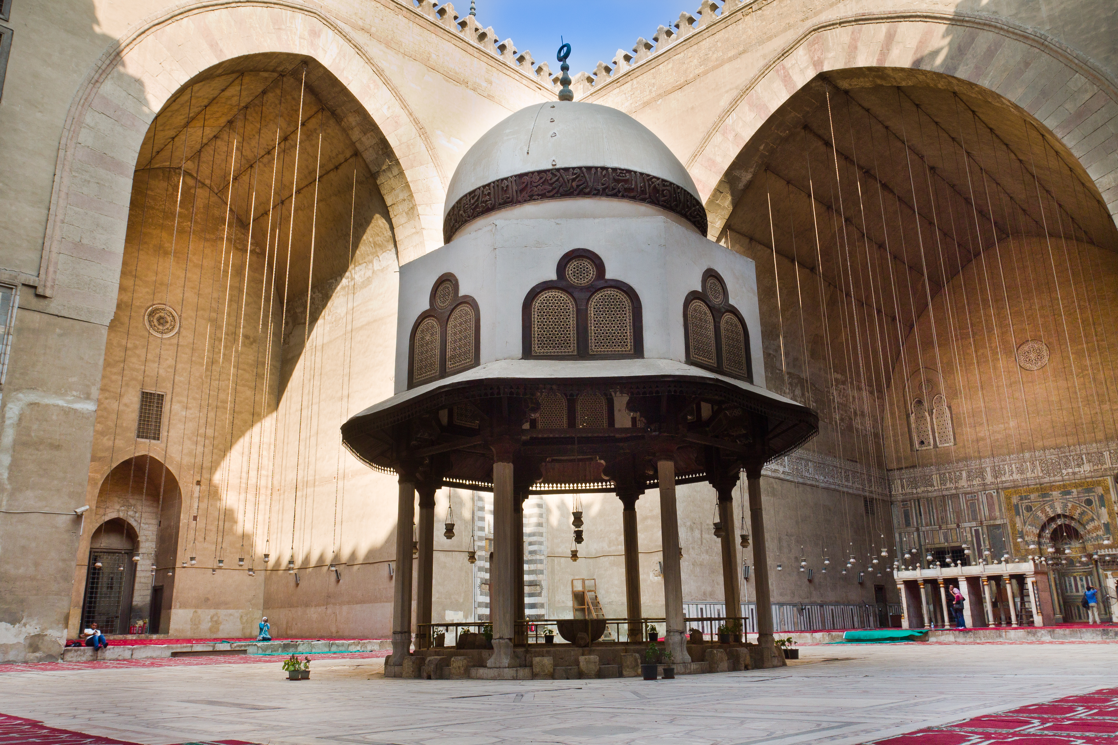 The Mosque-Madrassa of Sultan Hassan is a massive Mamluk era mosque and madrassa located near the Citadel in Cairo. Its construction began 757 AH/1356 CE with work ending three years later "without even a single day of idleness".[1] At the time of construction the mosque was considered remarkable for its fantastic size and innovative architectural components. Commissioned by a sultan of a short and relatively unimpressive profile, al-Maqrizi noted that within the mosque were several "wonders of construction".[1] The mosque was, for example, designed to include schools for all four of the Sunni schools of thought: Shafi'i, Maliki, Hanafi and Hanbali.